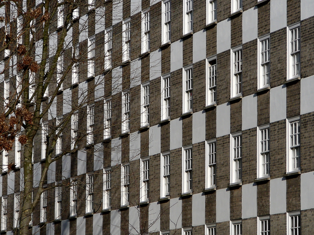 Grosvenor Estate, Westminster, London. The image was taken with a Panasonic Lumix DMC-TZ1.